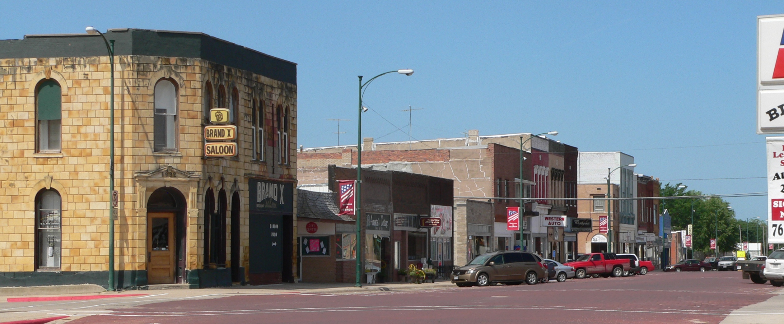 Downtown Hebron, Nebraska: south side of Lincoln Avenue, looking southwest from about 5th Street.